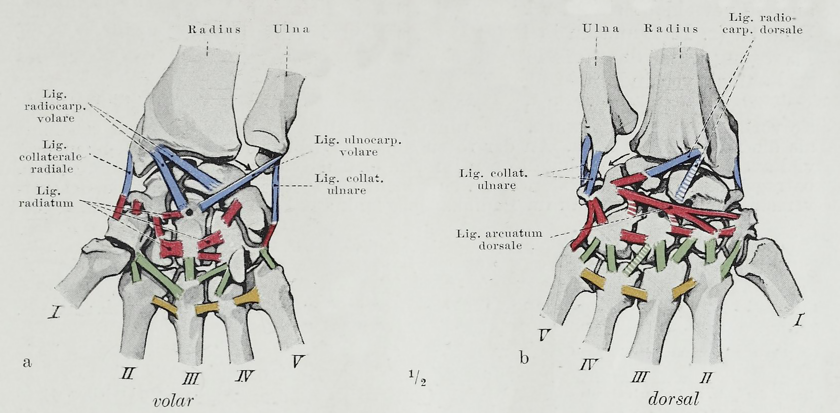 An anatomical illustration from the 1921 German edition of Anatomie des Menschen: ein Lehrbuch für Studierende und Ärzte with latin terminology.